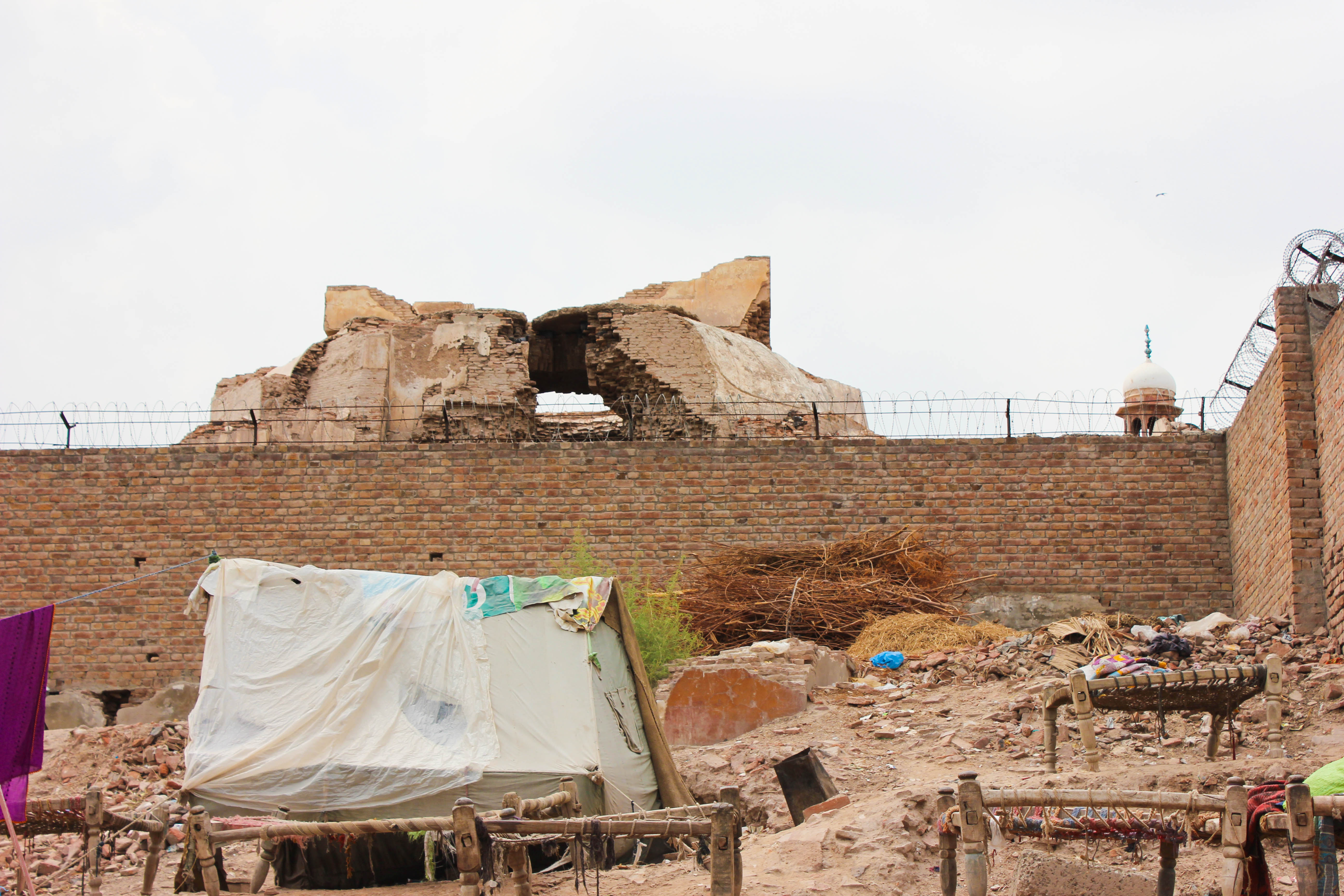 Prahladpuri Temple view,temple is now under control of Hazrat Baha-ud-din Zakariya administration and they allow no one to enter here,So I got this only photo,I wish I can capture more but they did't allow me. This is a photo of a monument in Pakistan identified as the PB-P-177